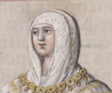 Leonor of Guzman